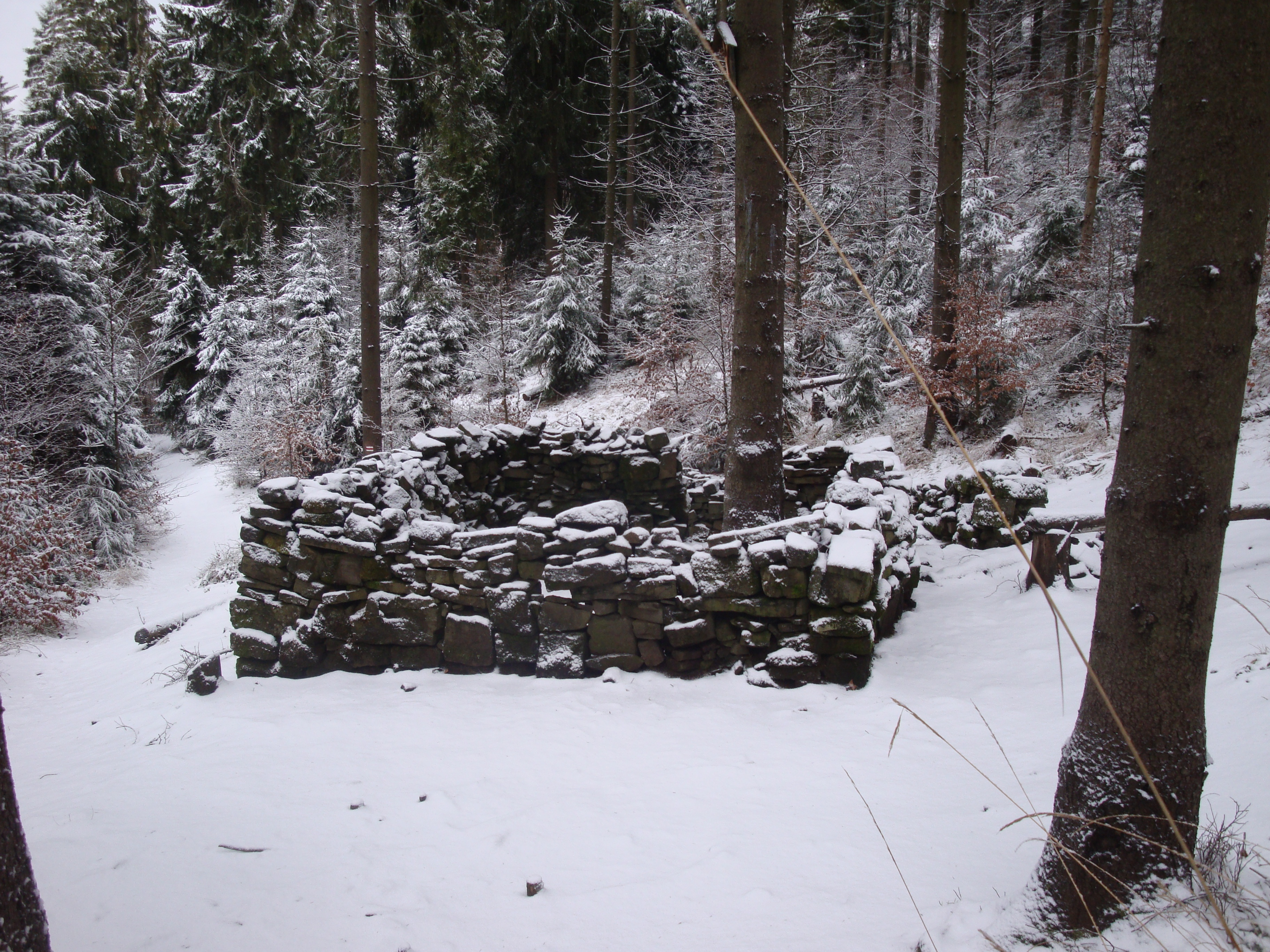 Remains of stone-made shepherd shelter on slope of Cisowa Grapa in Beskid Mały (Little Beskid), Poland.